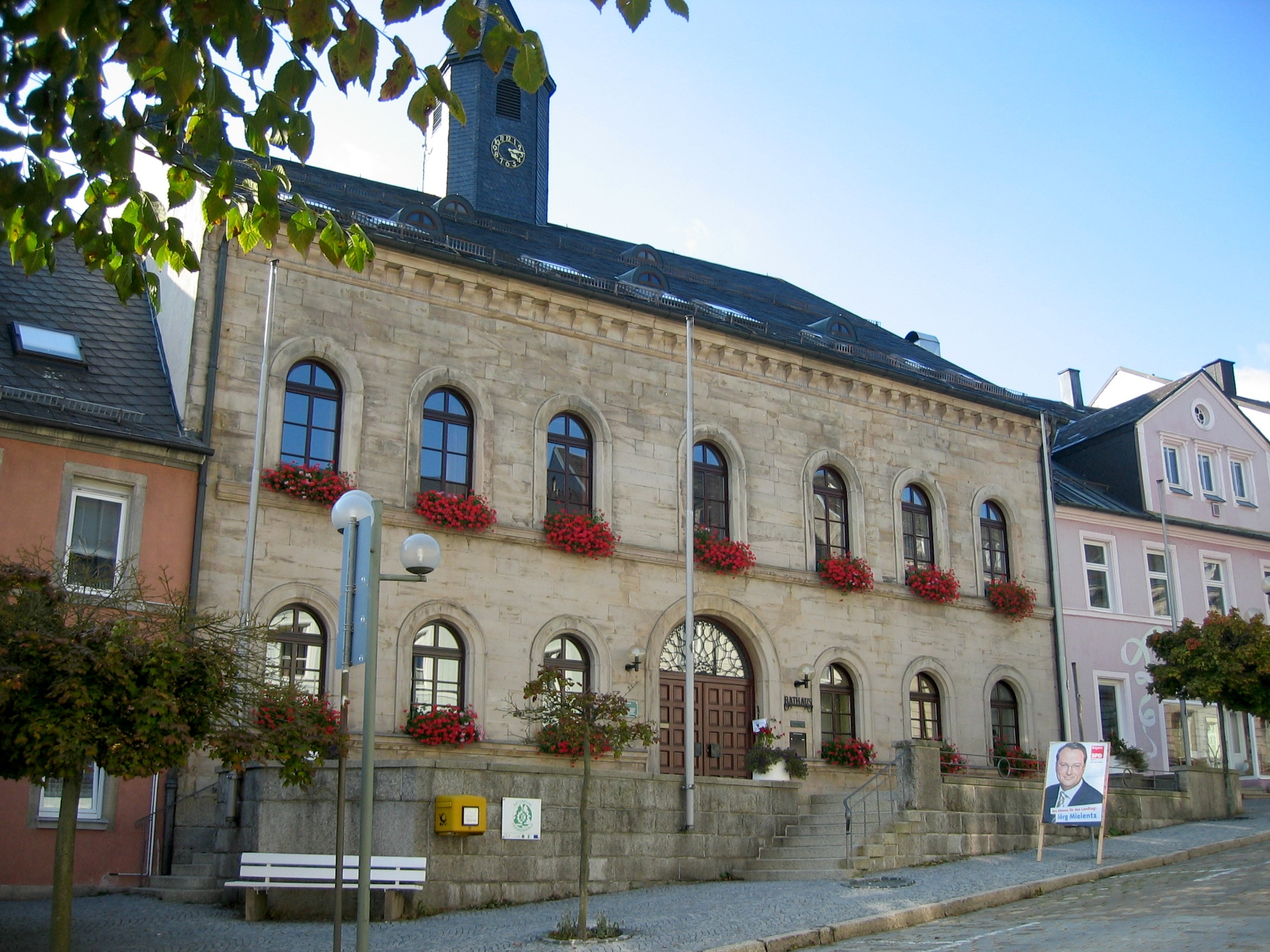 Town Hall of Münchberg